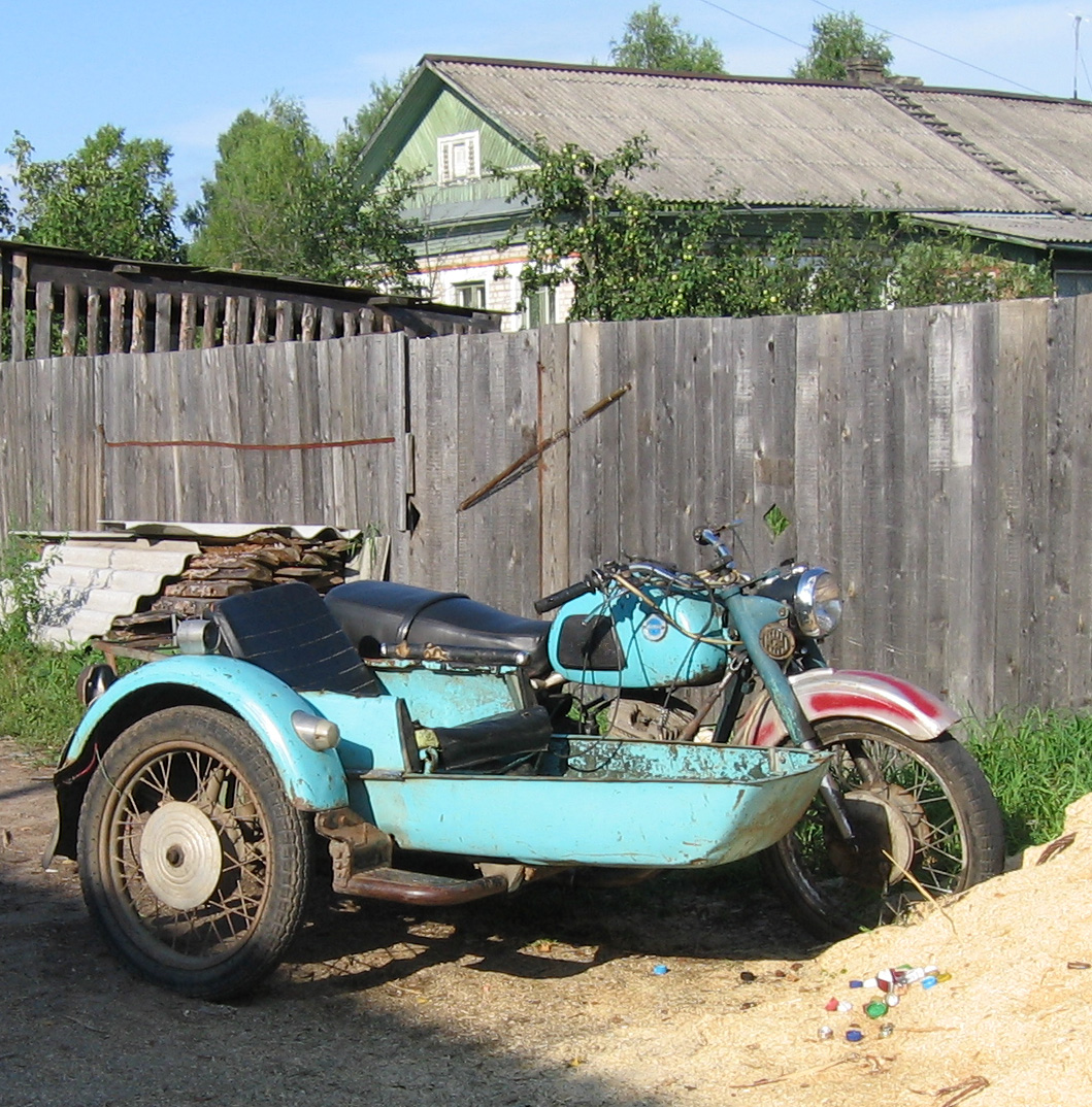 izh planeta 3